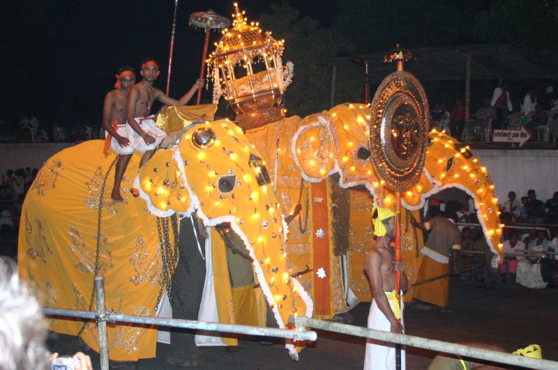 Apparently if the elephant raises his tusk in front of you it means good luck.